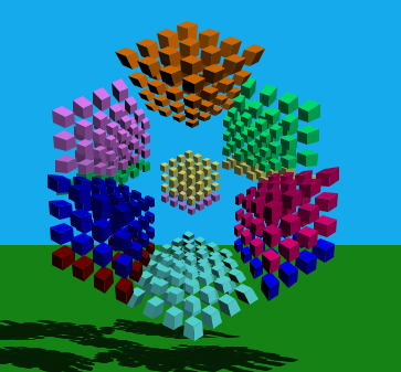 4D virtual 4x4x4x4 sequential move puzzle